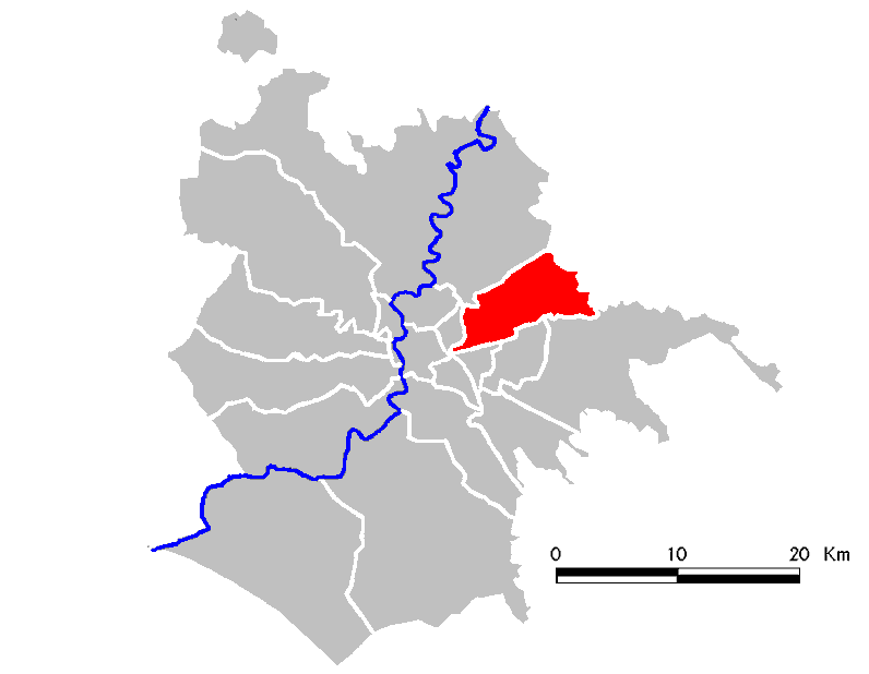 Locator maps of Rome